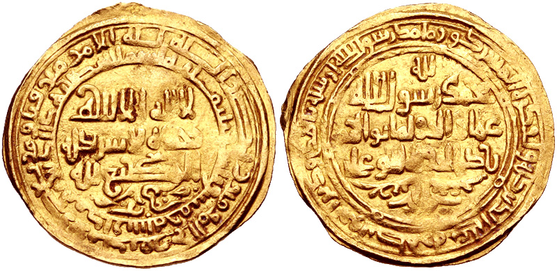 Coin of the Buyid ruler Imad-Dawla.